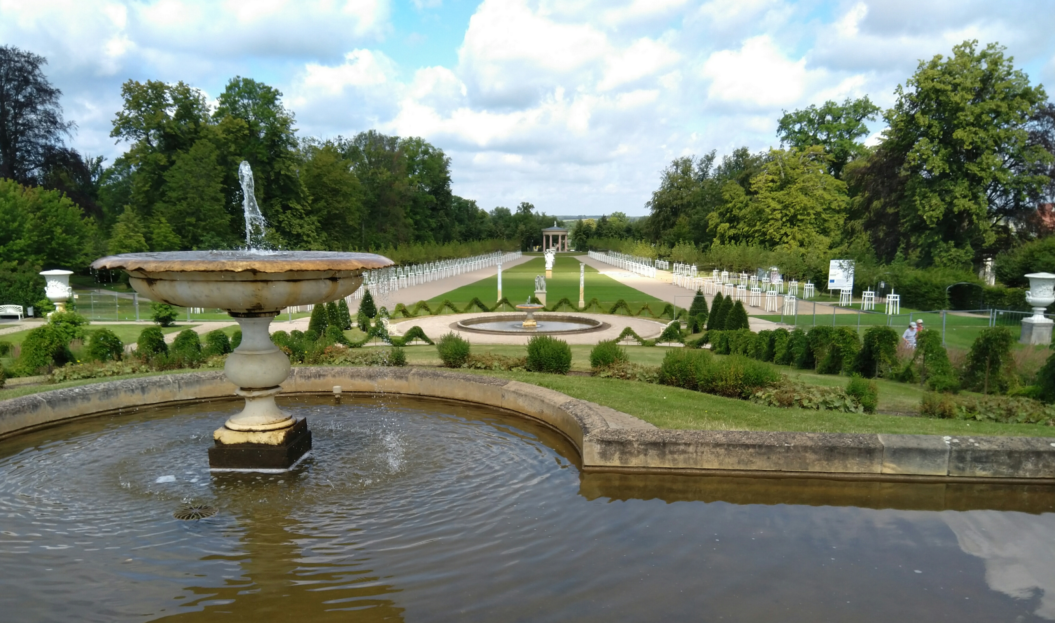 Park of Neustrelitz Palace, witch was destroyd in 1945